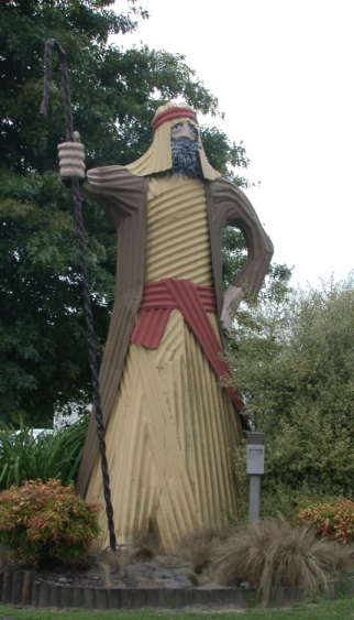 "The Good Shepherd" created by Steven Clothier of Corrugated Creations for the Tirau Community Church in 2001